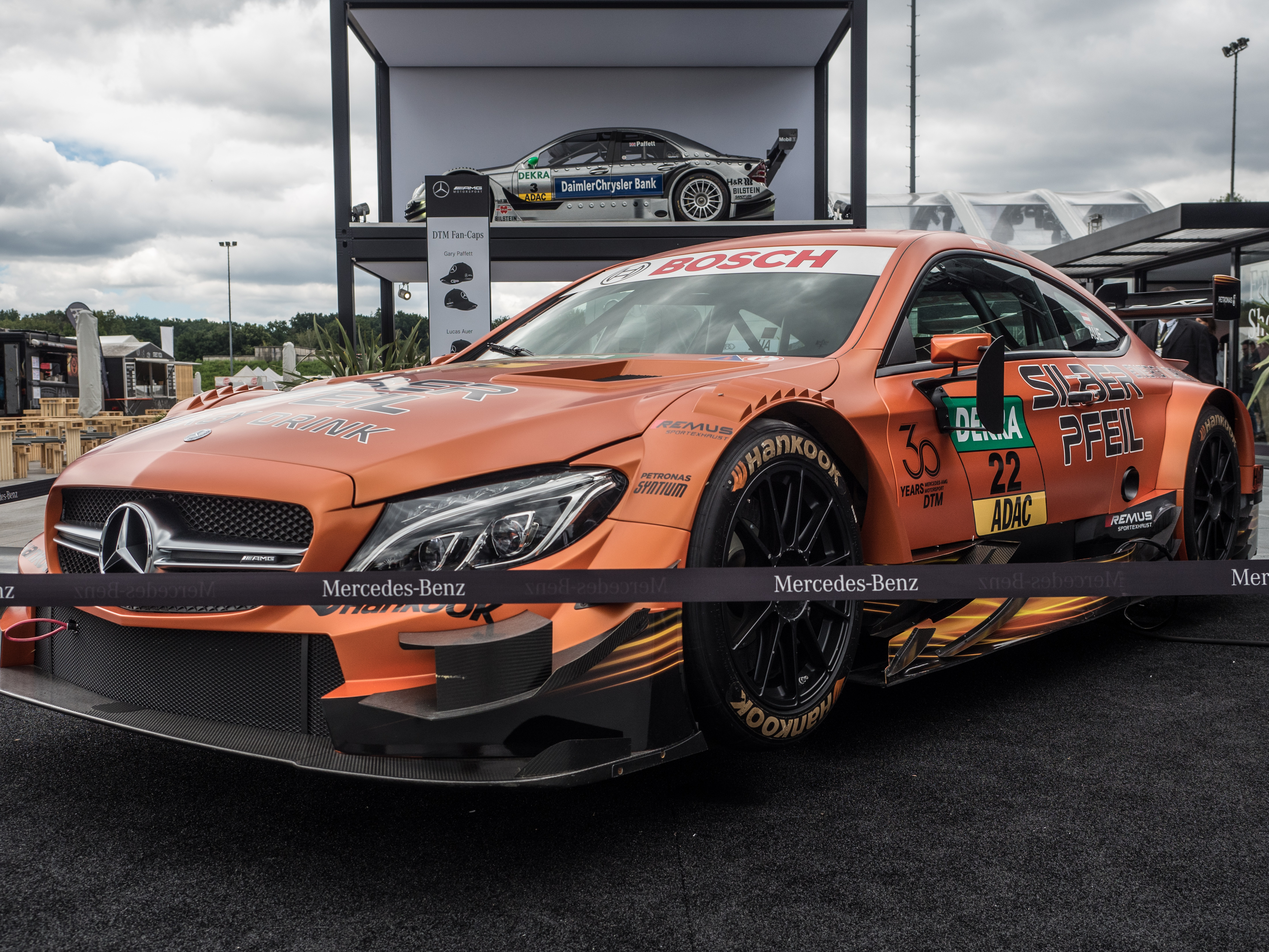 Mercedes-AMG C63 DTM 2018 of Lucas Auer in Norisring 2018.